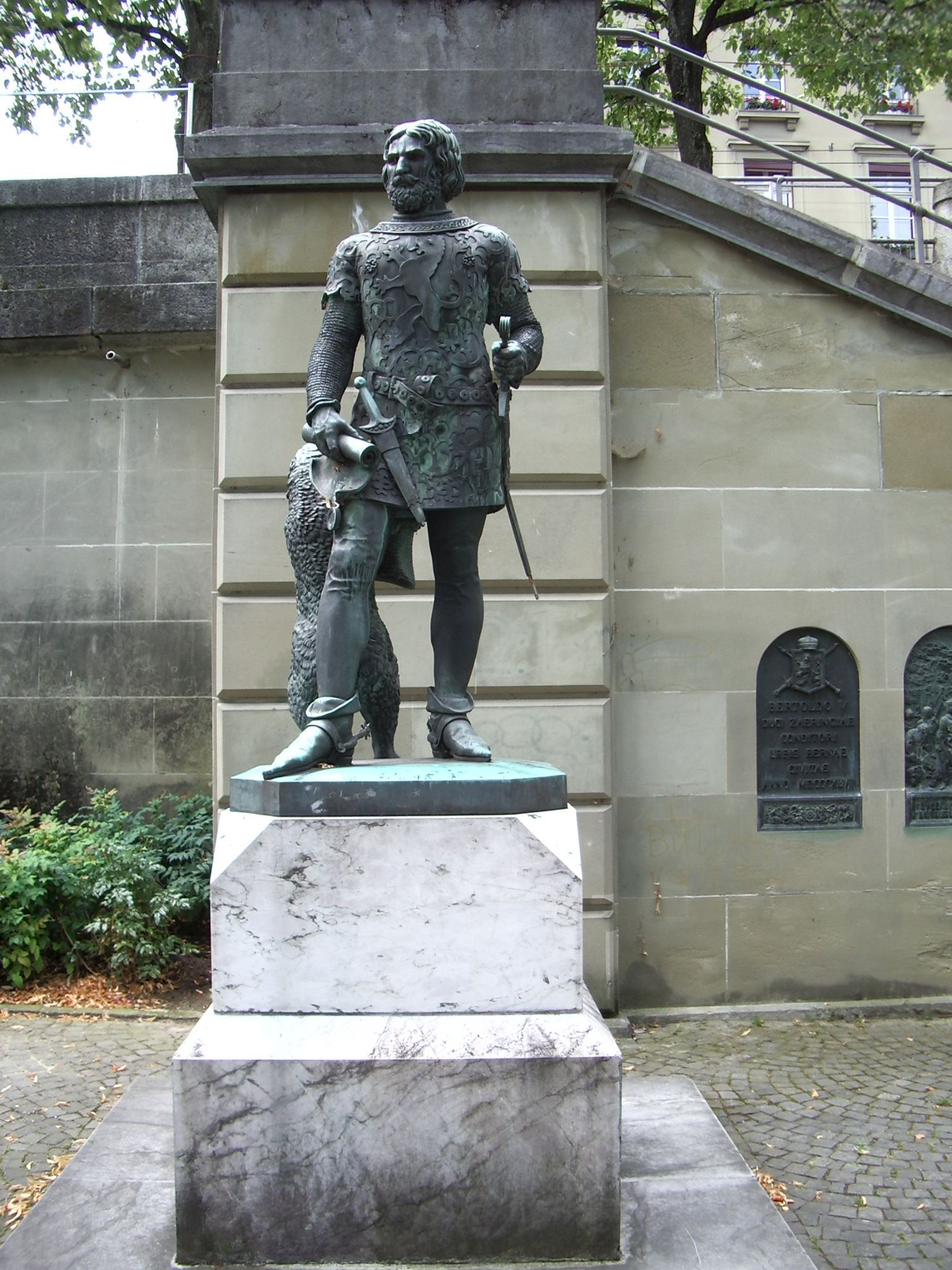 Duke Berthold V. of Zähringen (Berchtold V. of Zähringen), born ~1160, died 1218, as pictured at the Zähringerdenkmal (Zähringer monument) in Bern, Switzerland.